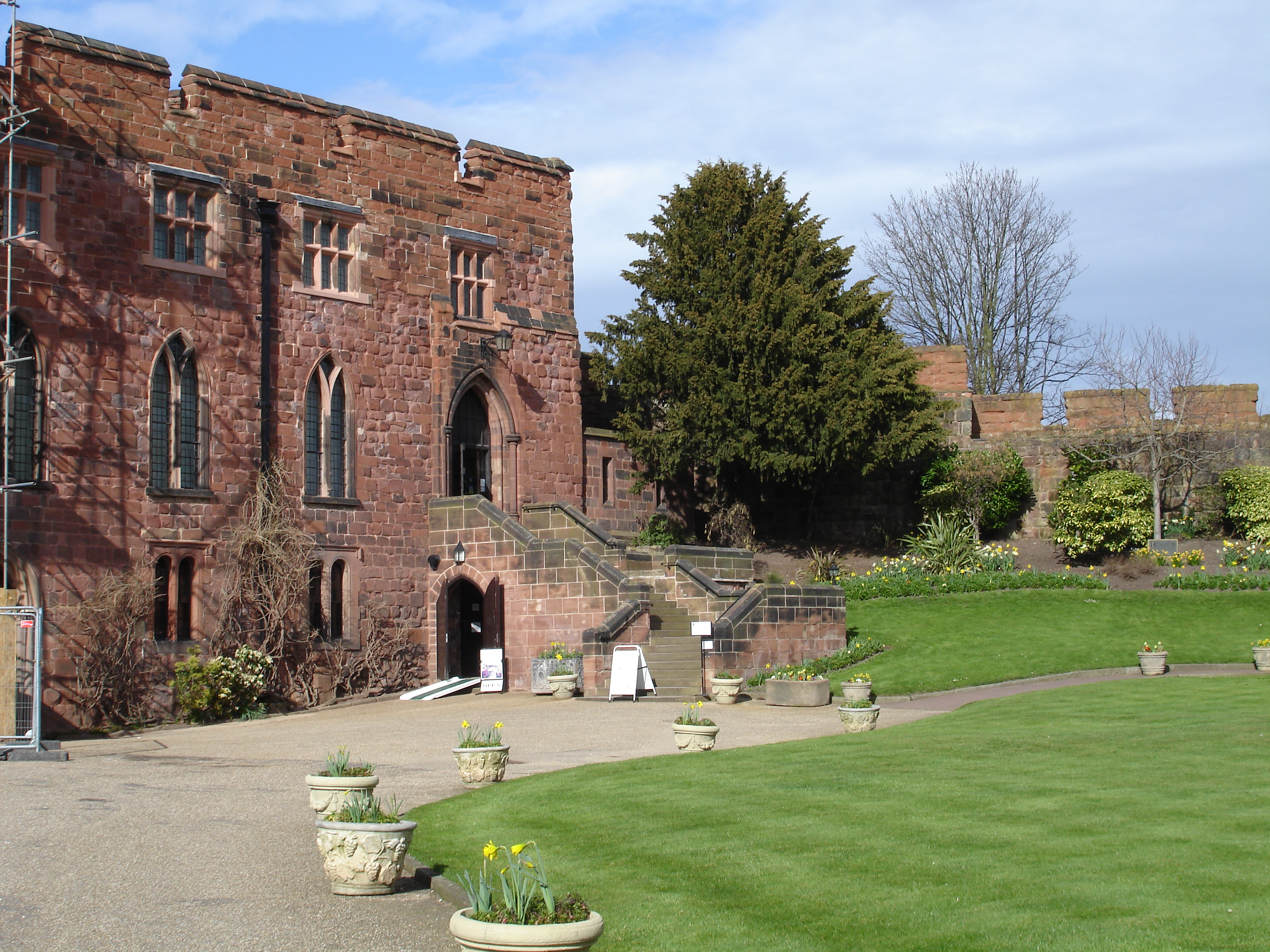 Shrewsbury Castle today. S Knights, my photo, March 2006.